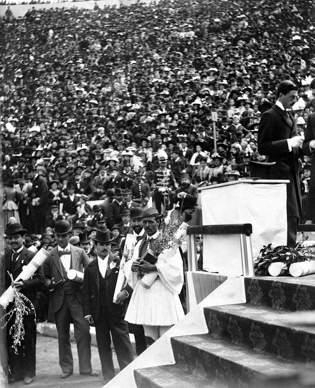 Greek athlete Louis Spiridon (centre) receives his gold medal at the medal ceremony for winning the marathon event during the 1896 Olympic Games in Athens, Greece (3 Apr 1896)